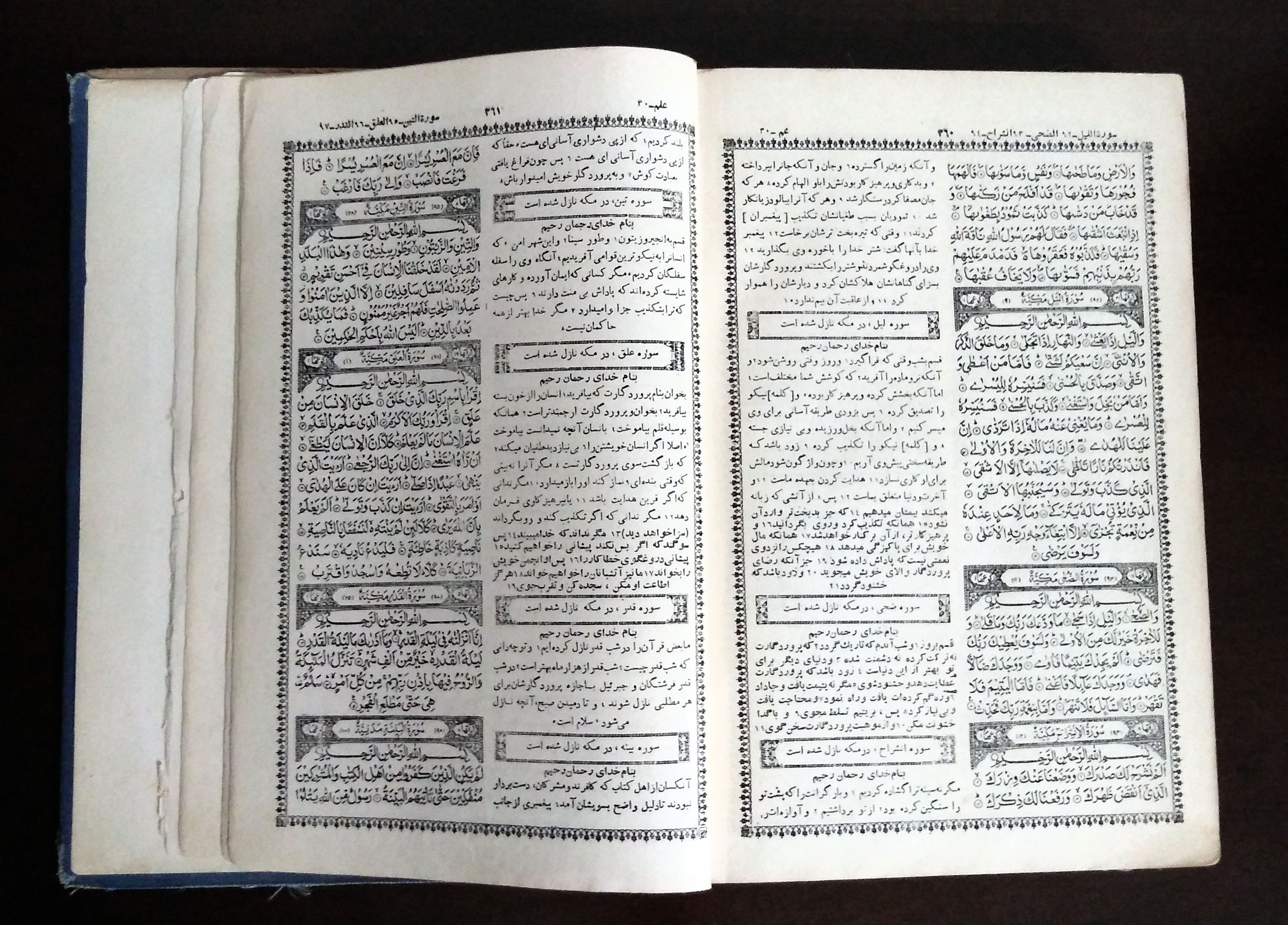 This Book is a Persian translation of Quran by Abolghasem Payandeh that first published in 1957.